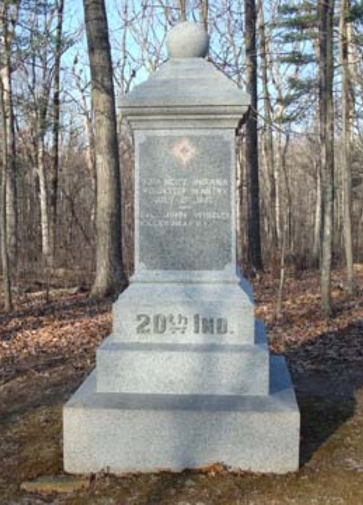 20th Indiana Infantry Monument, Slocum Avenue, Gettysburg Battlefield.